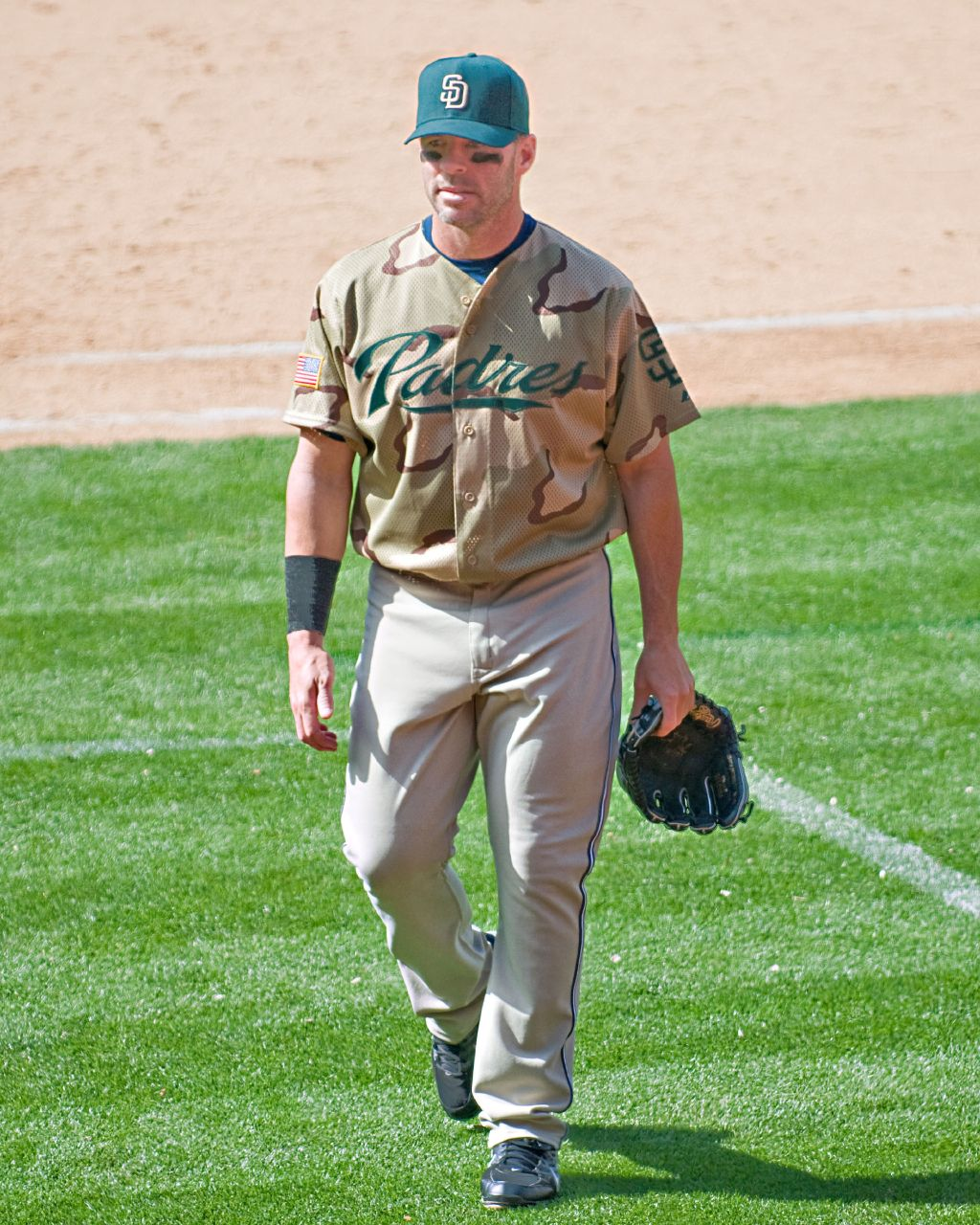 Jim Edmonds